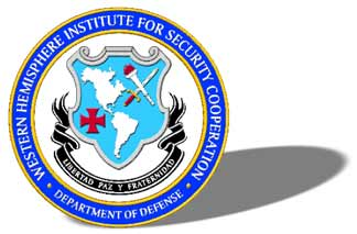 Official seal of the Western Hemisphere Institute for Security Cooperation, United States